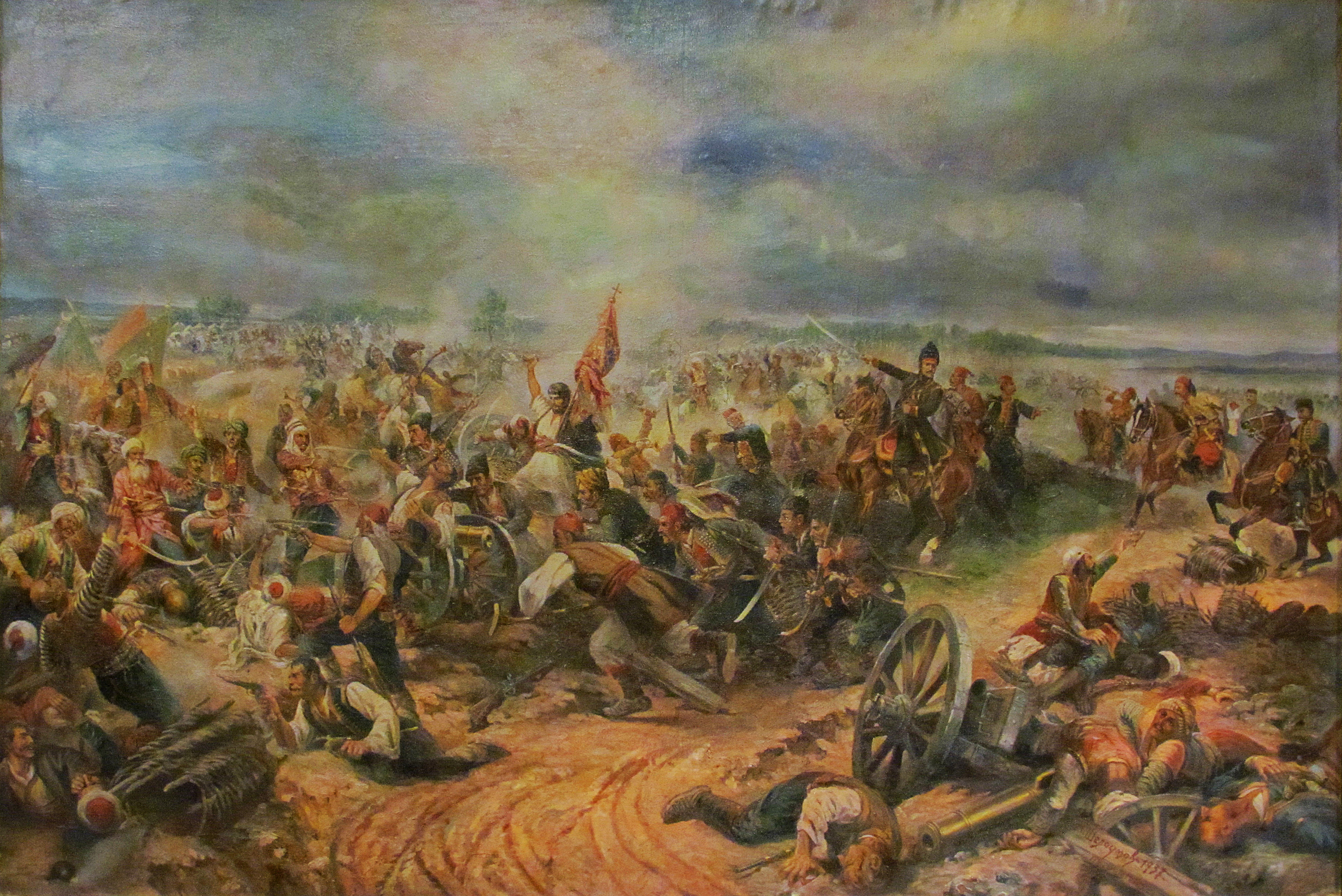 Afanasij Scheloumoff, Battle of Mišar